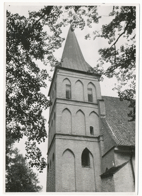 Wargen,_Kirchturm.